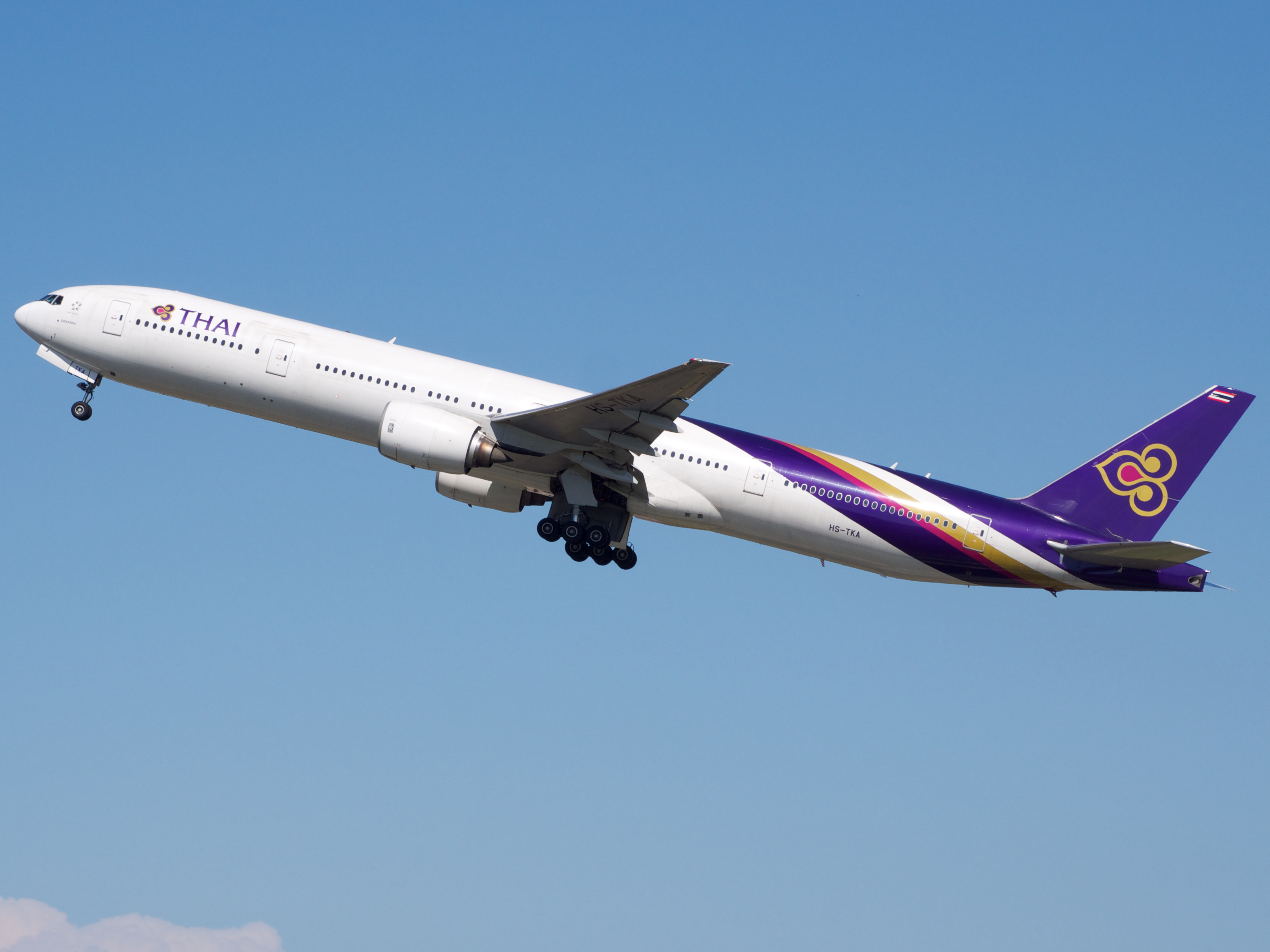 HS-TKA | 777-3D7 | Thai Airways International | Brisbane